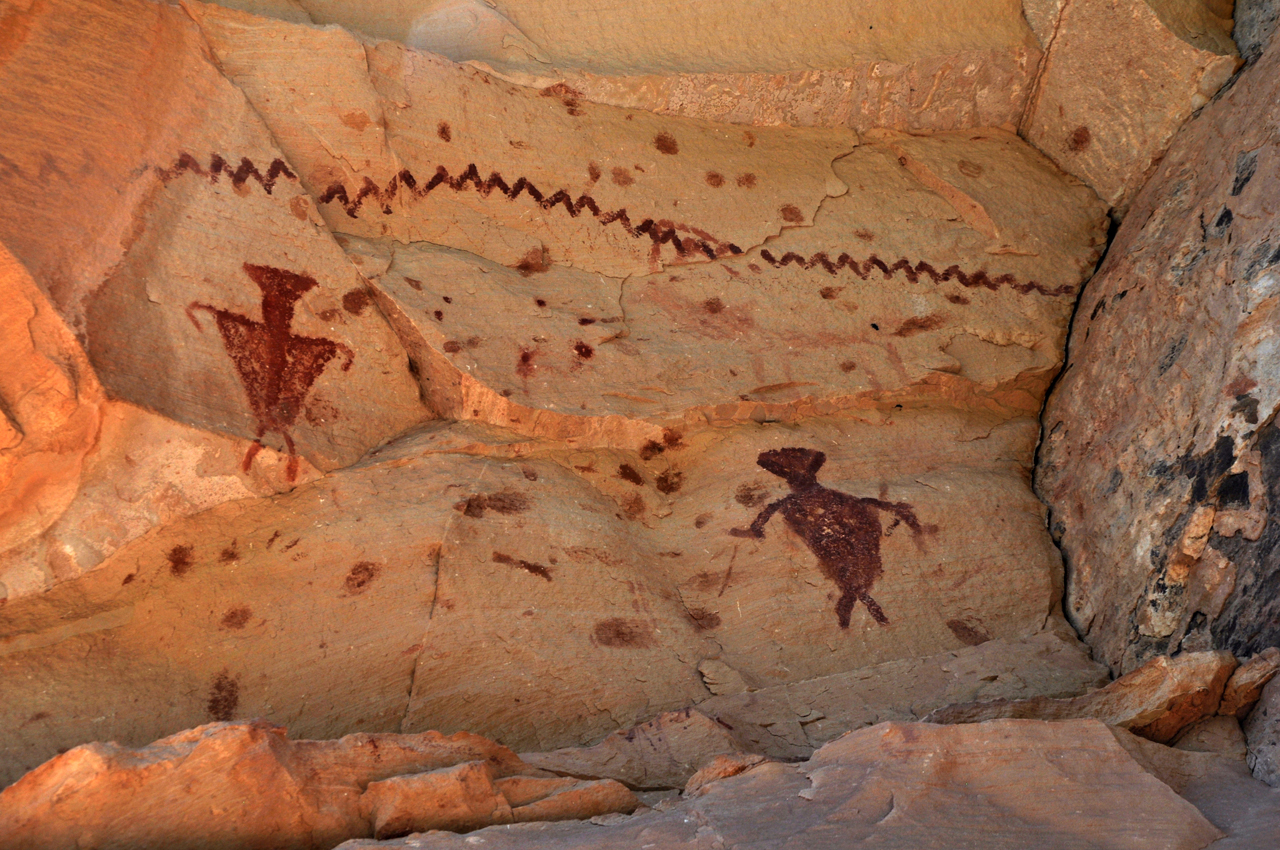 Pictographs at Kanab Creek, Arizona. “2012 Intertribal Meeting” with the Kaibab National Forest. May 9-11, 2012. Photo taken by Dyan Bone. DSC_0149sm. Please give credit to: U.S. Forest Service, Southwestern Region, Kaibab National Forest.